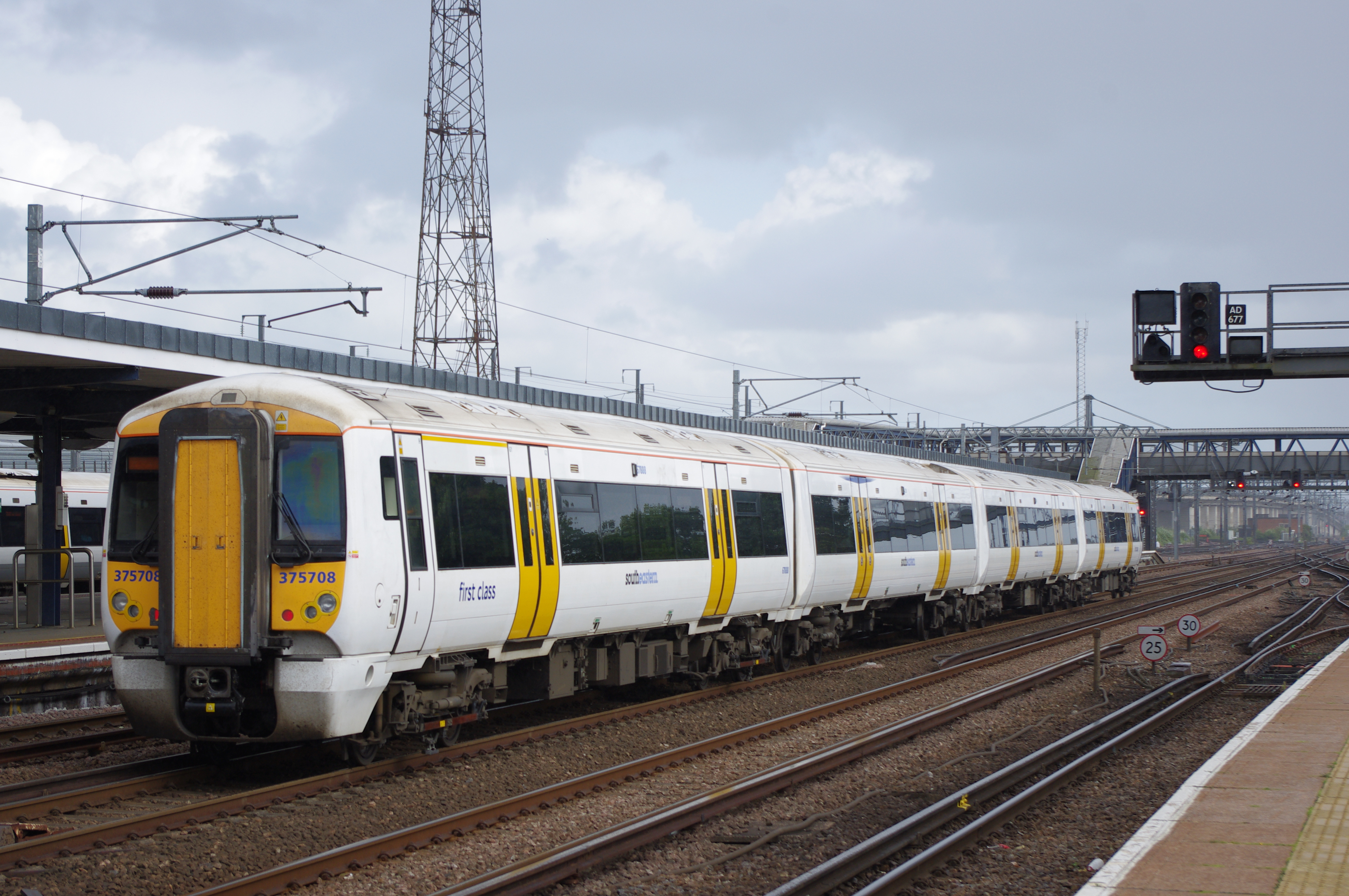 375708 Works Empty Down the Middle